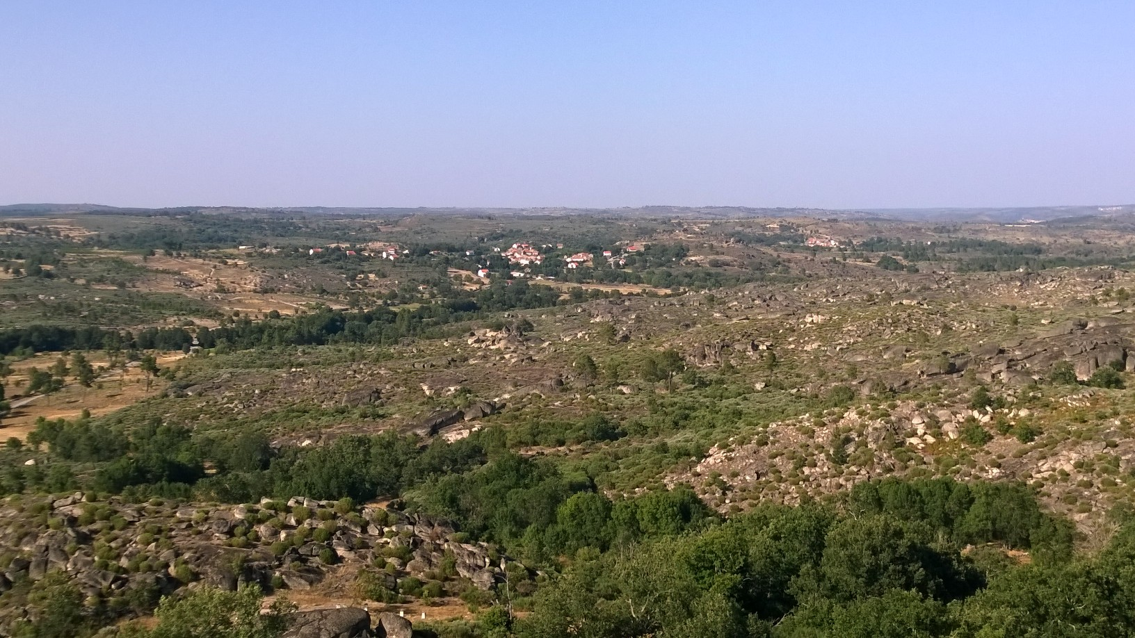 Abitureira - partial view